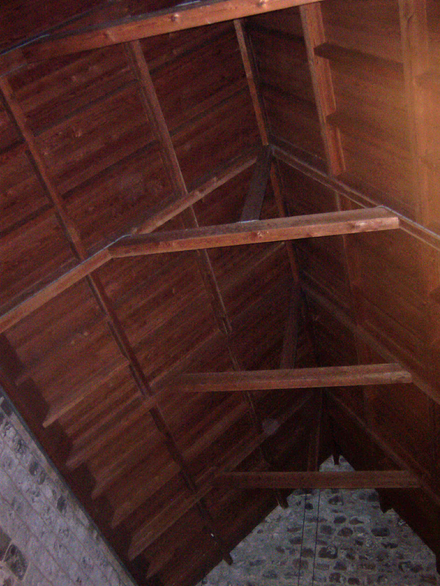 The hammerbeam roof of St Filians Church, Aberdour.